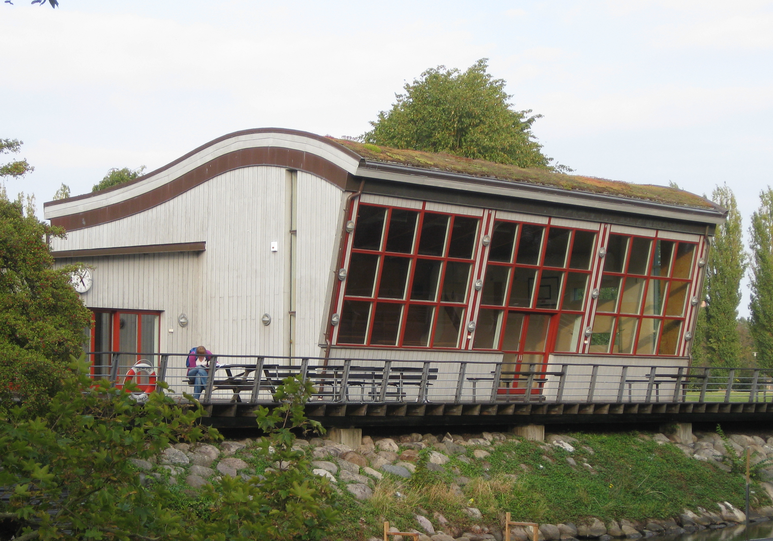 Malmö kanotklubb, Sweden